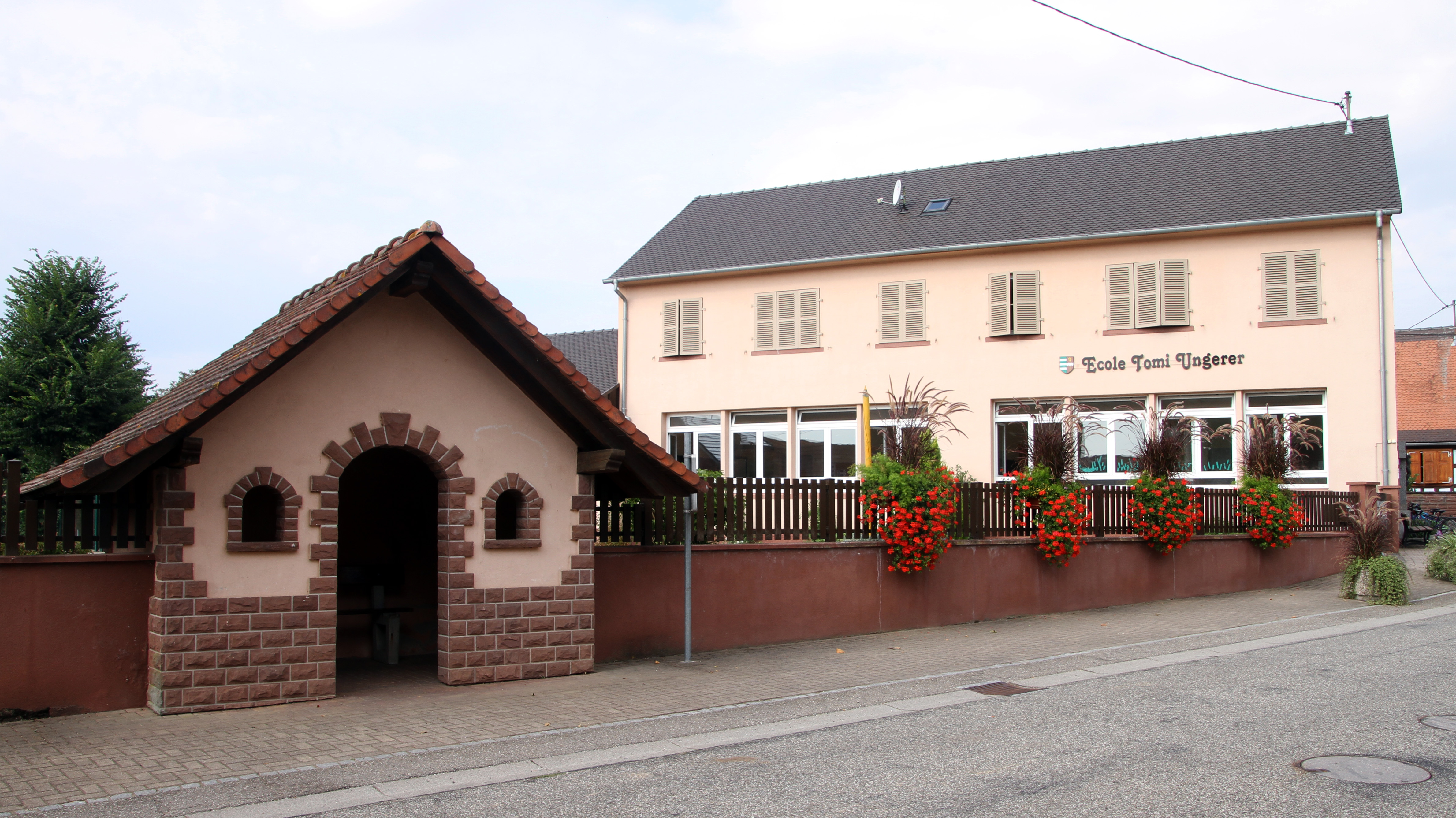 Wintzenbach, School